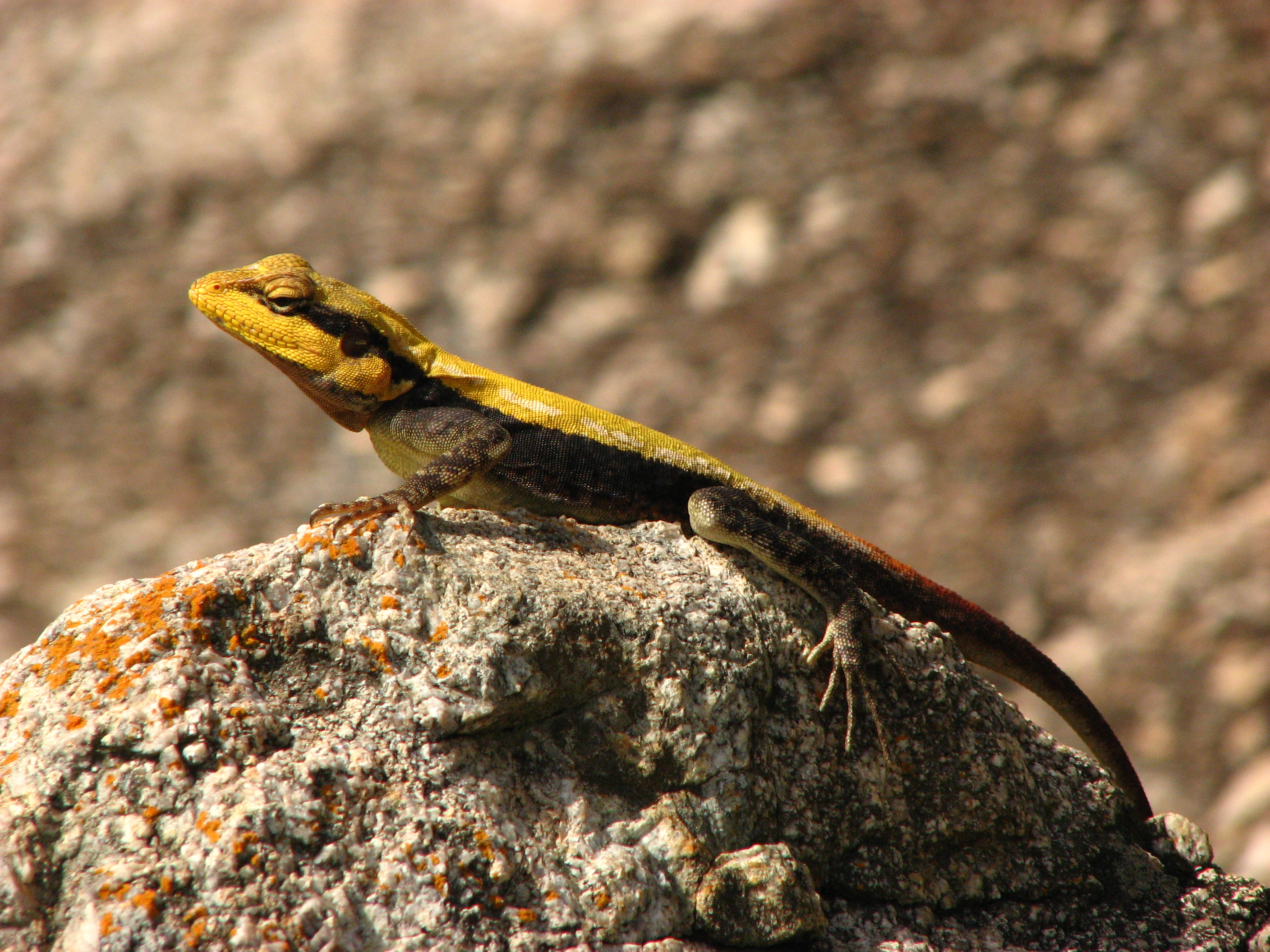 Adult male of Psammophilus dorsalis in breeding colouration.